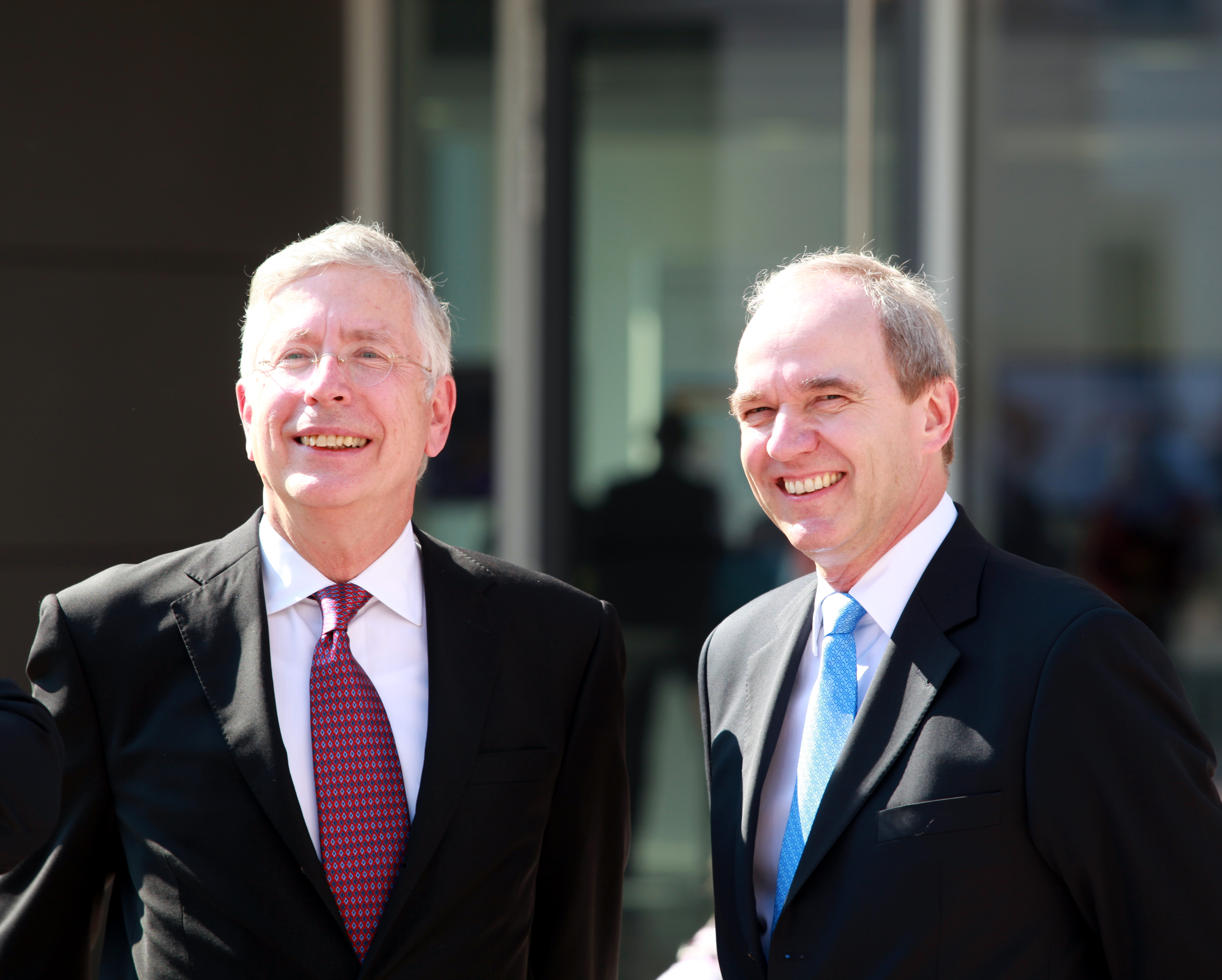 Jon Baumhauer and Karl-Ludwig Kley, prior the opening ceremony of Merck's Material Research Center in Darmstadt (Germany).